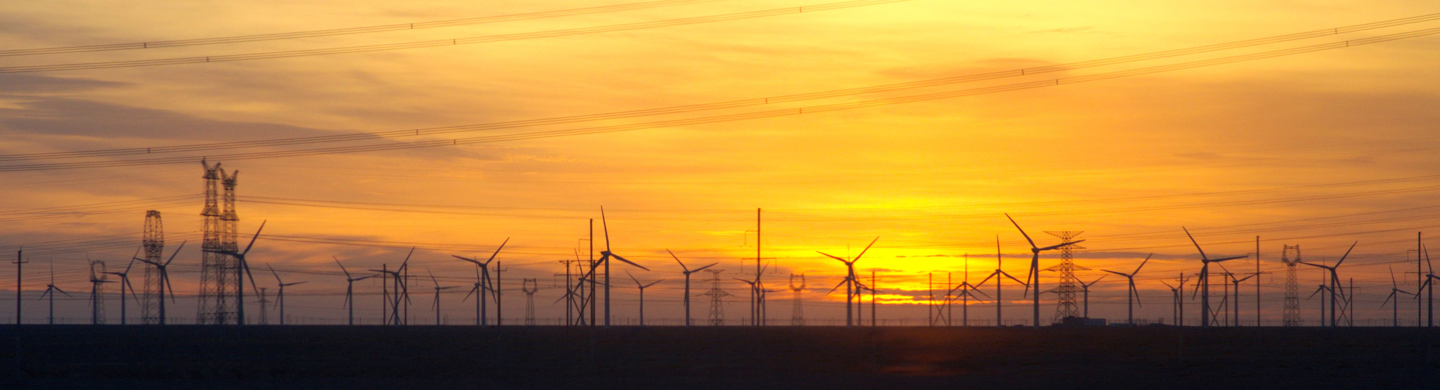 Sunset on more than 200 Windturbines at Guazhou (瓜州县) wind farm, Gansu province, China